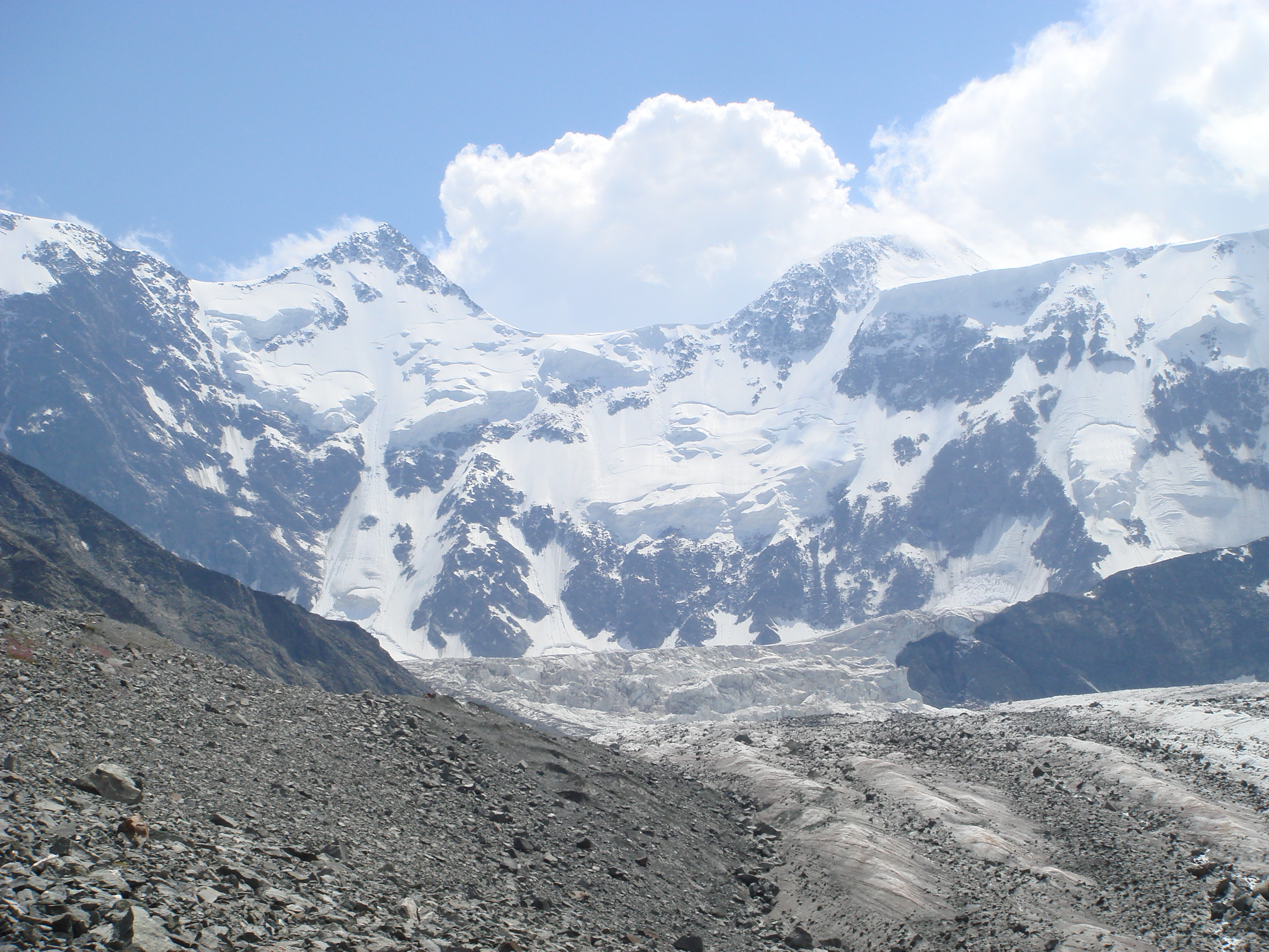 Mt Belukha and Akkem glacier (Altay Republic, Russia).